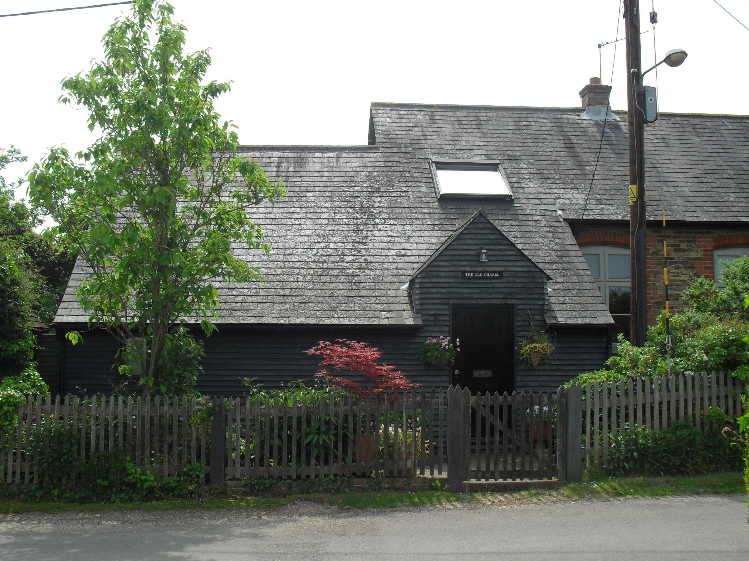 Former Society of Dependents (Cokelers) Chapel, Byfleets Lane, Warnham, District of Horsham, West Sussex, England. Built in 1874; used for worship until the 1970s. Now a house.